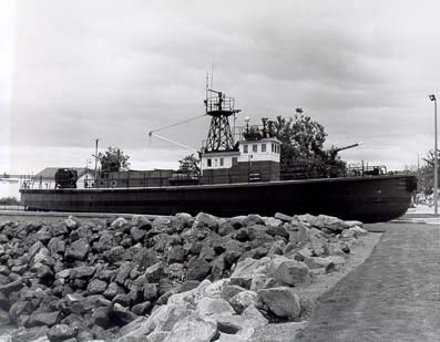 Fireboat No. 1 in Marine Park in Tacoma, Washington, 1991, NPS photo, Candace Clifford